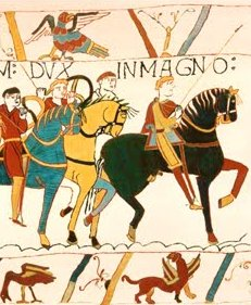 Detail of the Bayeux Tapestry, from image:Bayeux Tapestry WillelmDux.jpg